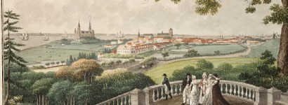 View of Helsingør and Kronborg from Marienlyst Slot, Denmark